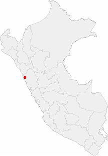 Location of the city of Chimbote in Peru Created by User:StarbucksFreak - May 2005